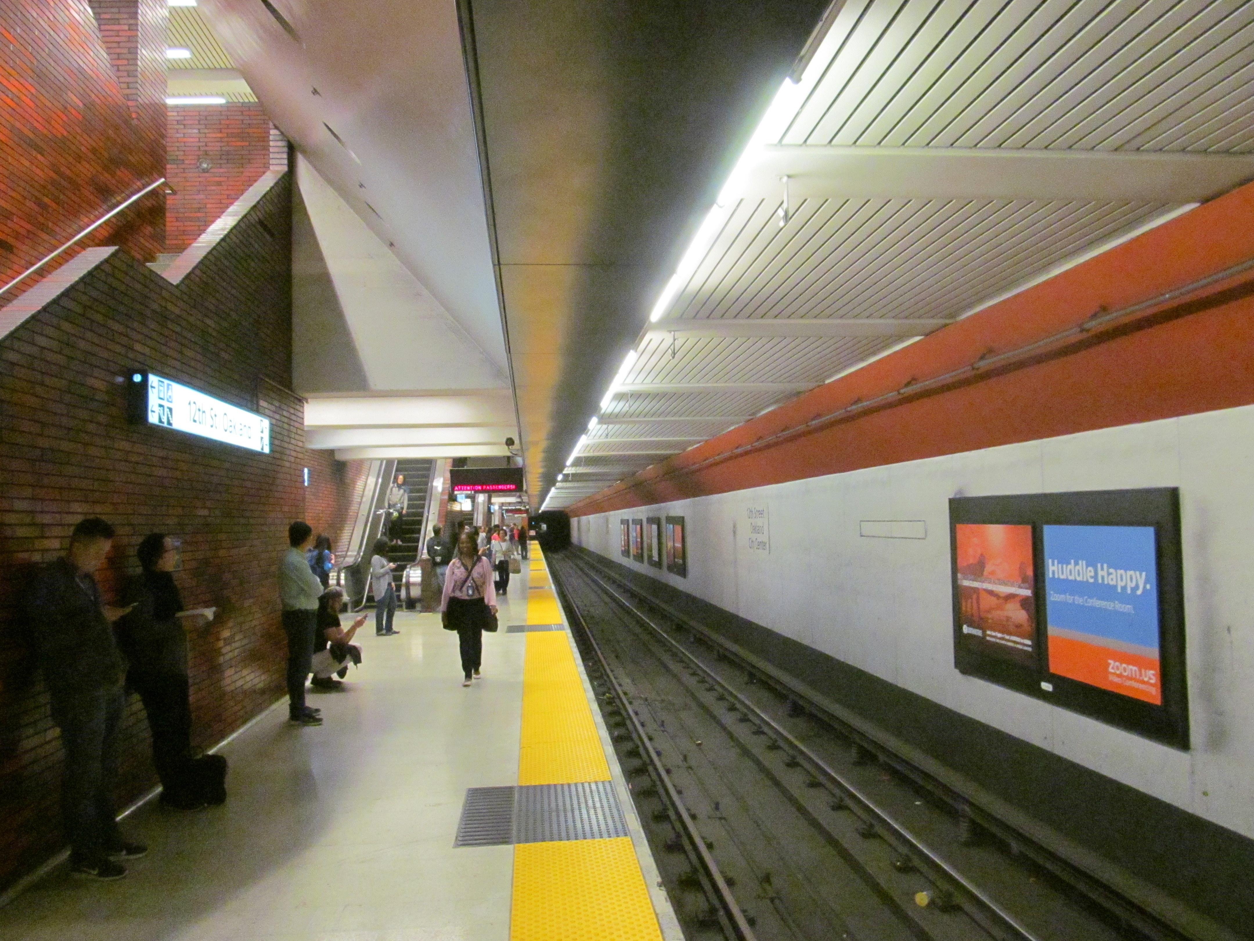 Lower platform at 12th Street - Oakland City Center station in July 2017. A 2004 considered expanding this into an island platform, with the other track to be used for a new shuttle to Jack London Square.